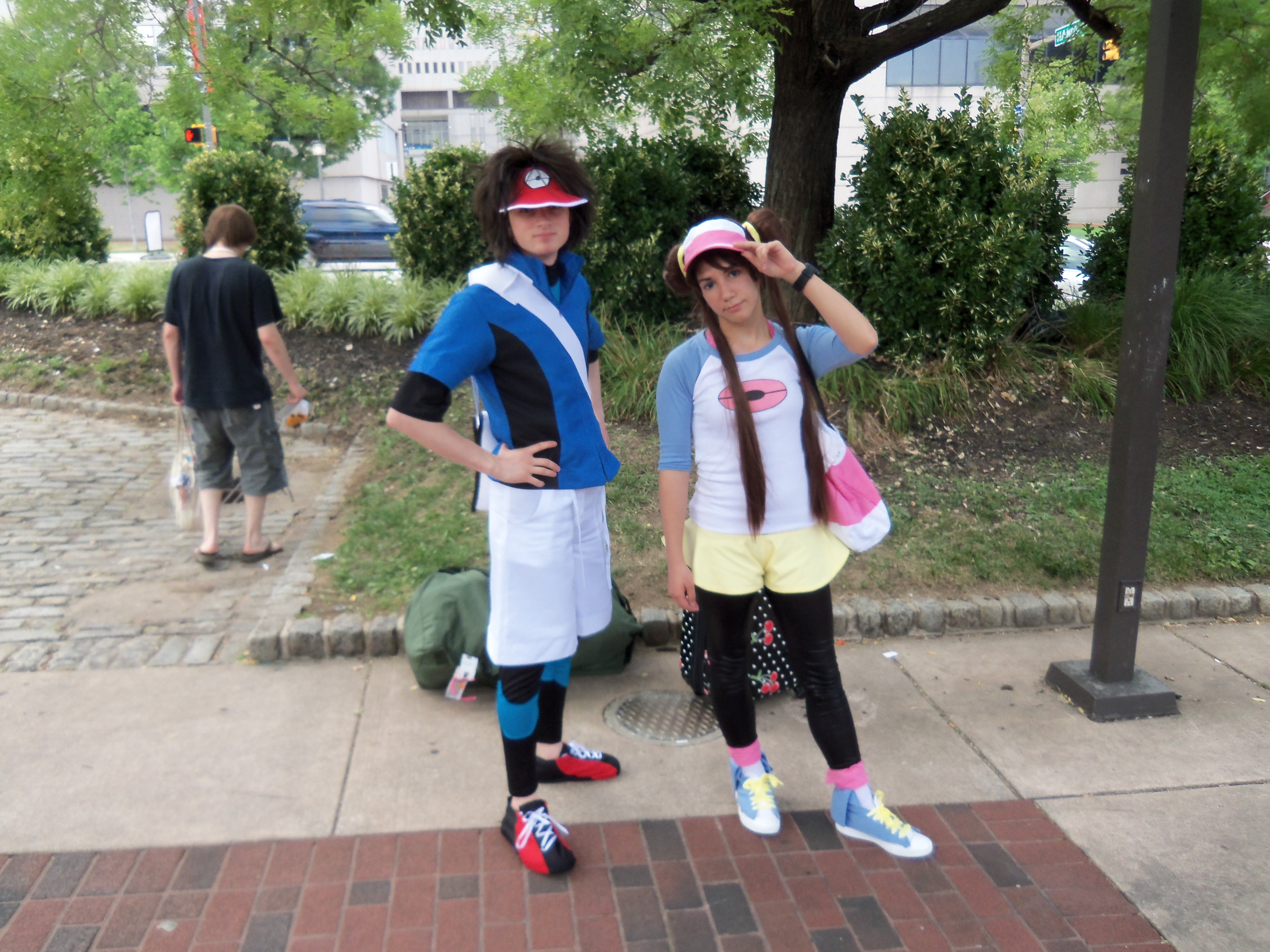 Kyoushi and Mei (the main characters) of Pokemon Black and White. Kuro et Mei (les principaux personnages) de Pokémon Noir 2 et Blanc 2